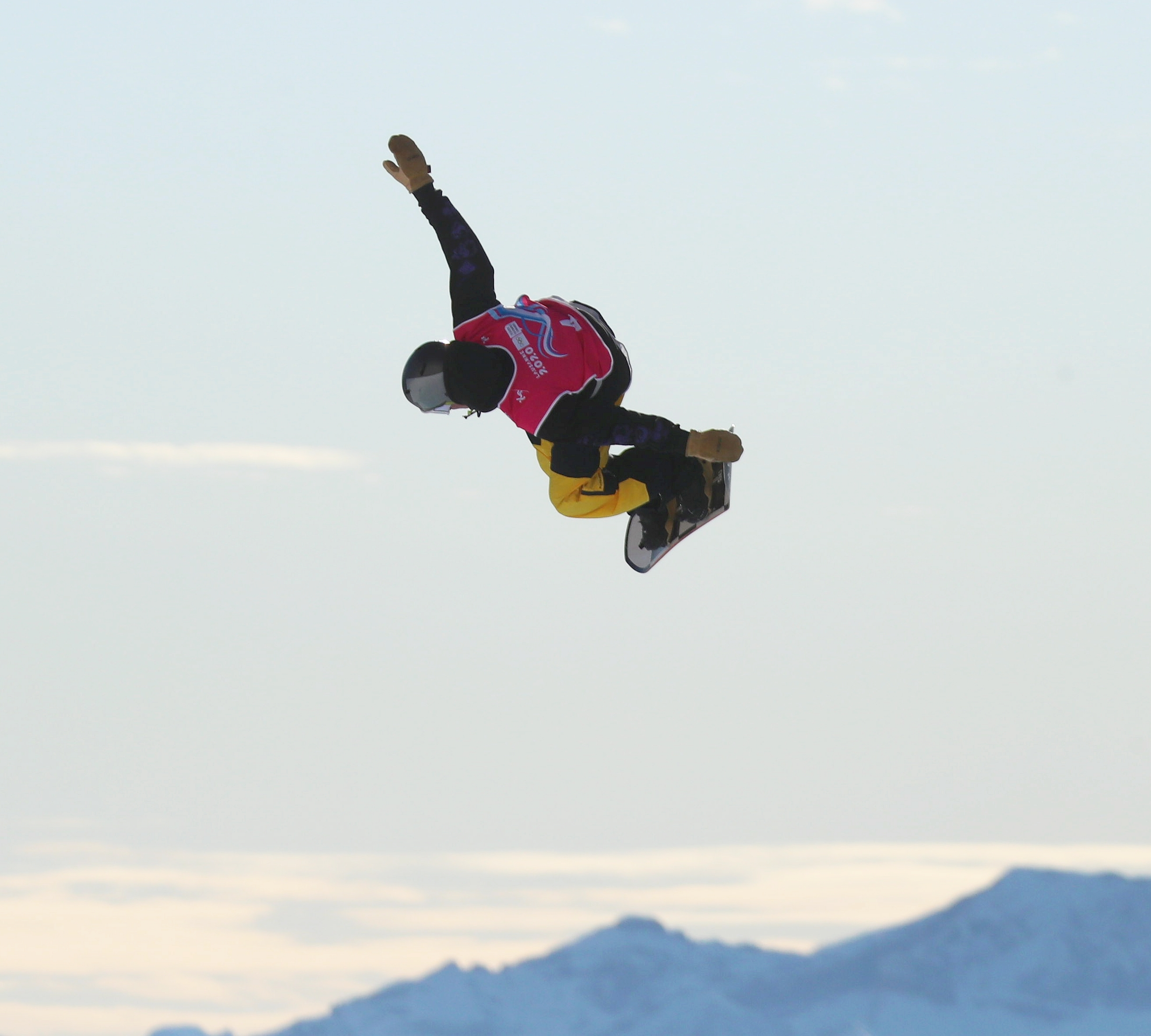 1st final run of Snowboarding – Men's Slopestyle at the 2020 Winter Youth Olympics in Lausanne on 20 January 2020.